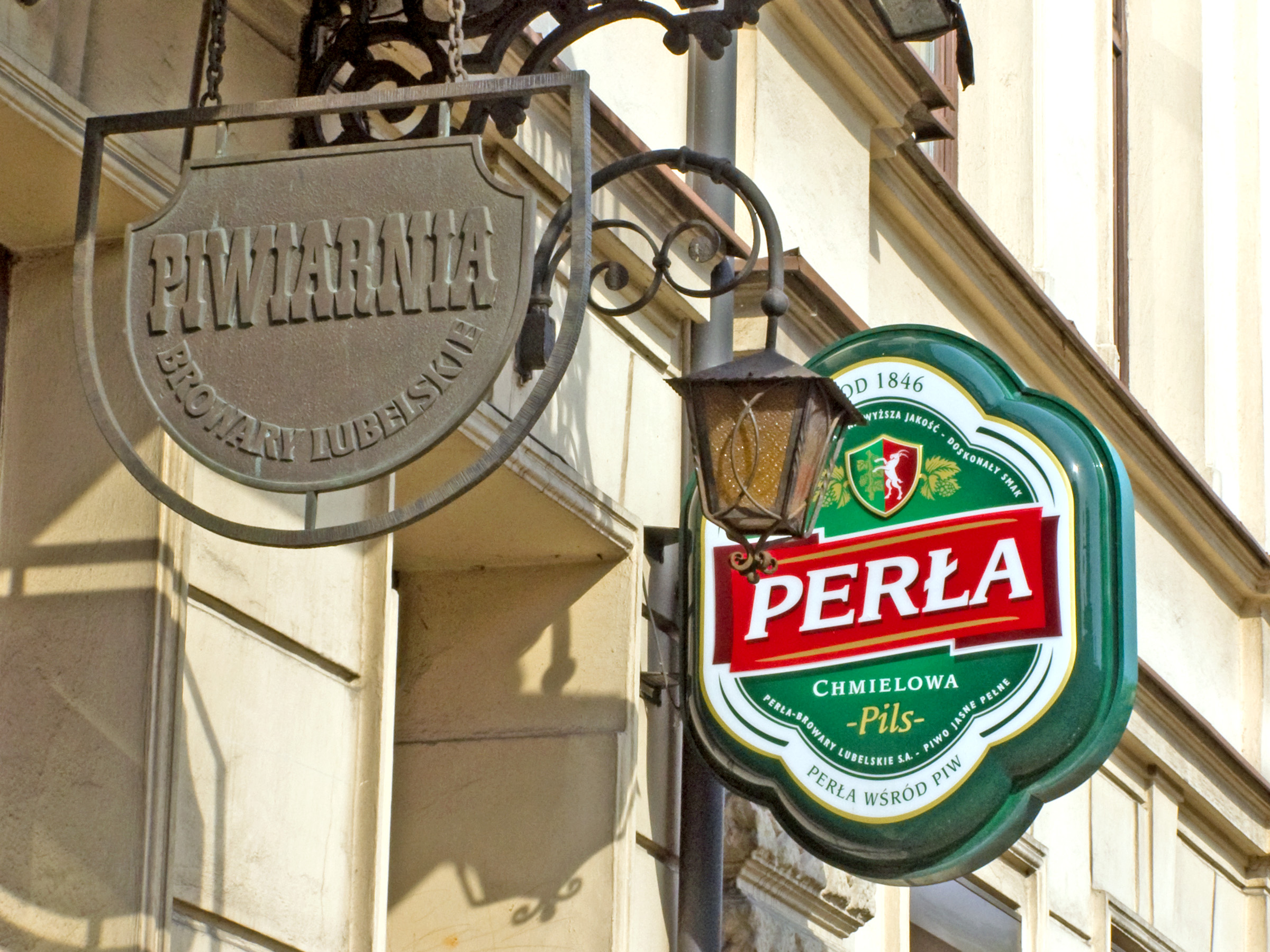 Street Bernardyńska in Lublin, Brewery "Perła".